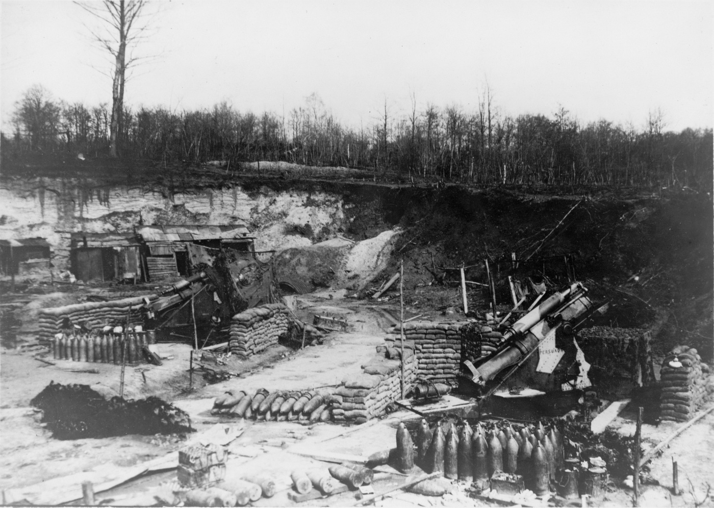 Photograph showing two camouflaged BL 9.2 inch howitzers. Nearest gun is named "Persuader". The guns' recoil buffers are disconnected. This is believed to be a German photograph of abandoned British guns captured during the Spring Offensive of March 1918.